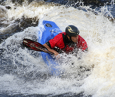 Example of freestyle paddler in Action